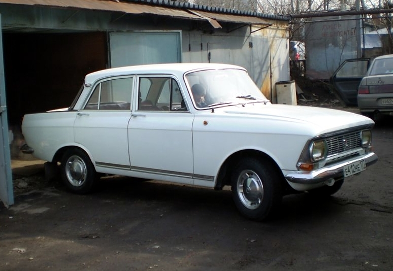 AZLK Moskvitch-412IE, built in 1975, with extra ELITE trim